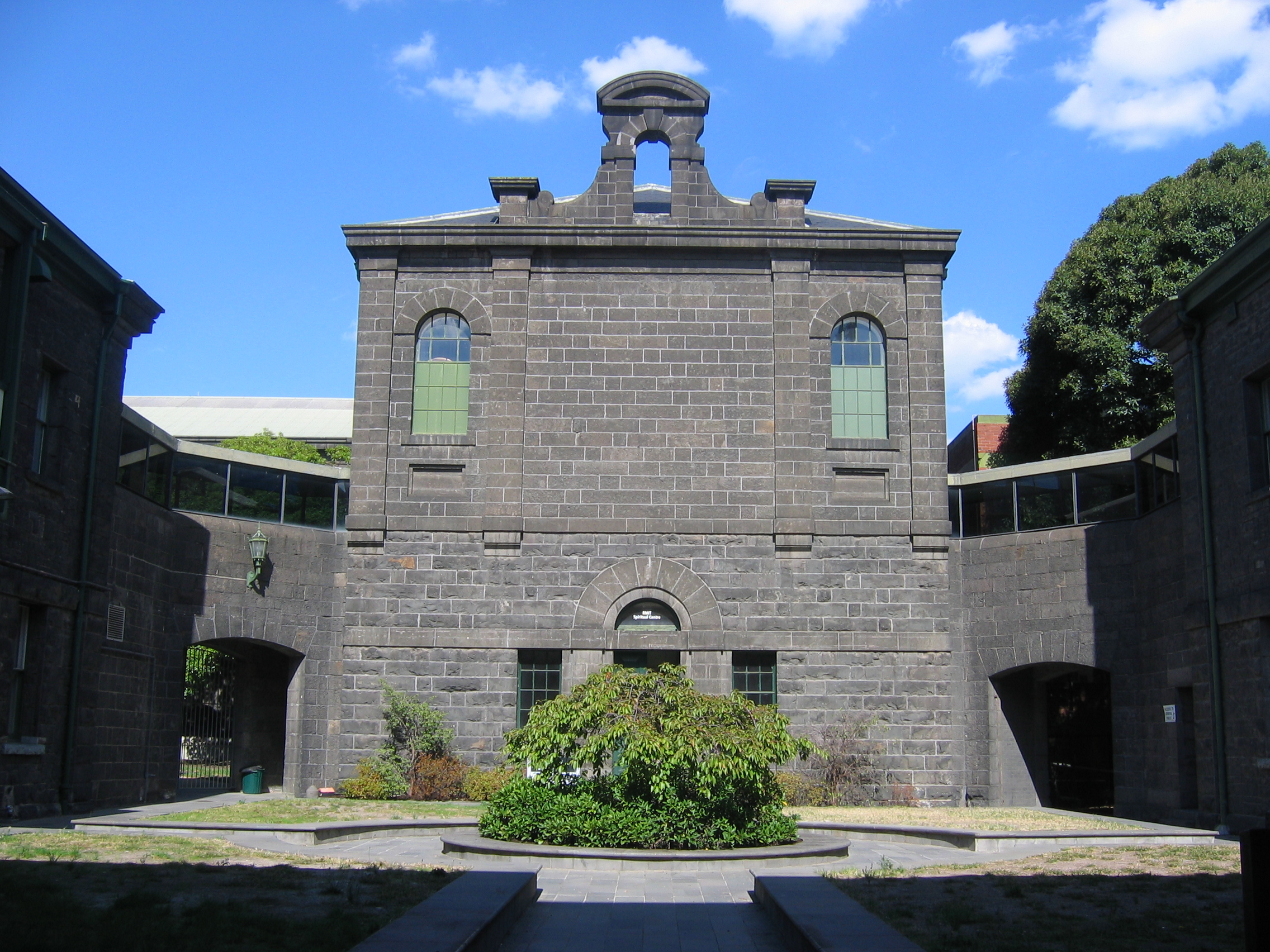 RMIT City Campus Spiritual Centre (formerly the chapel of the Old Melbourne Gaol).